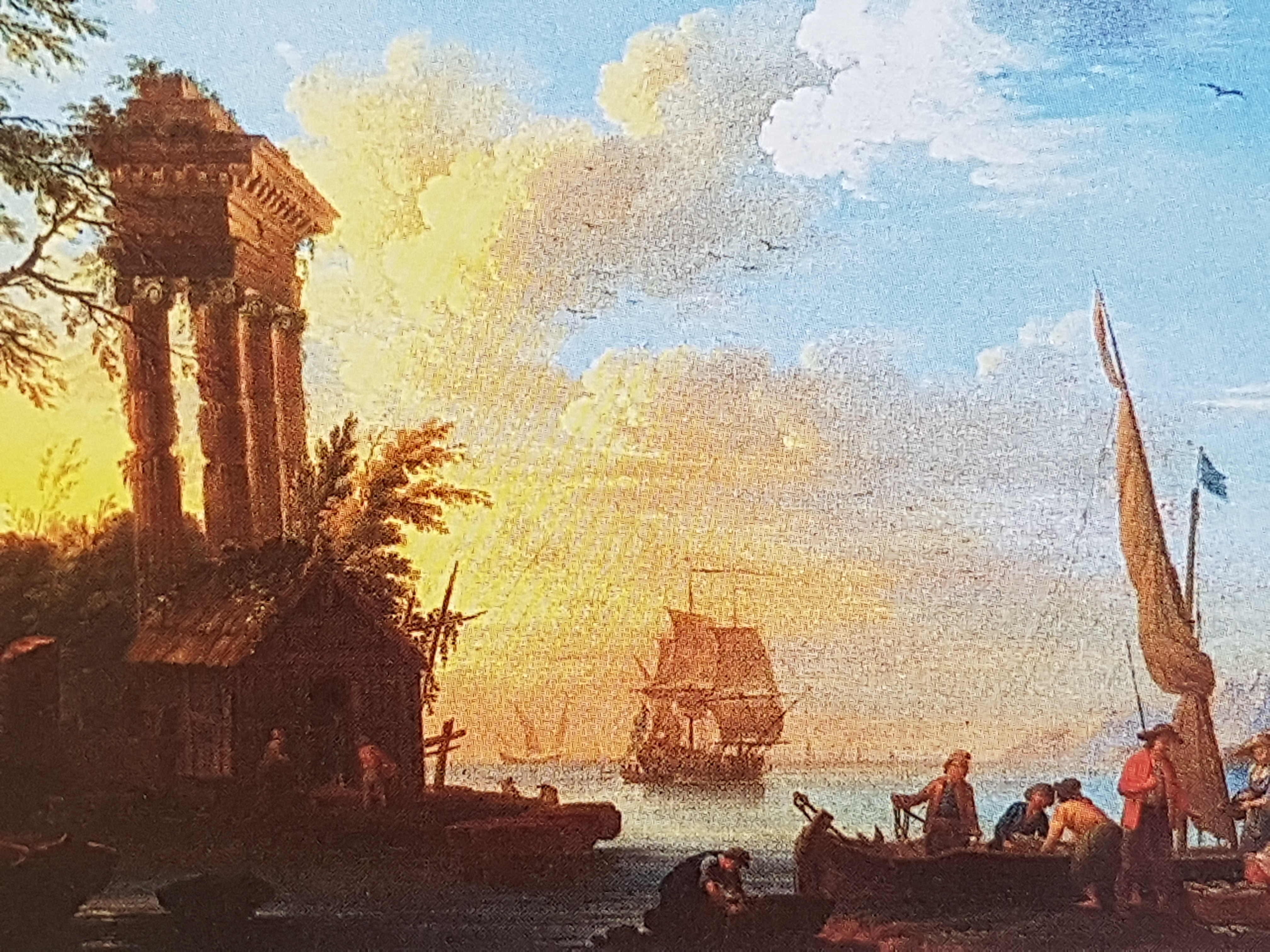 port méditérranéen 1758